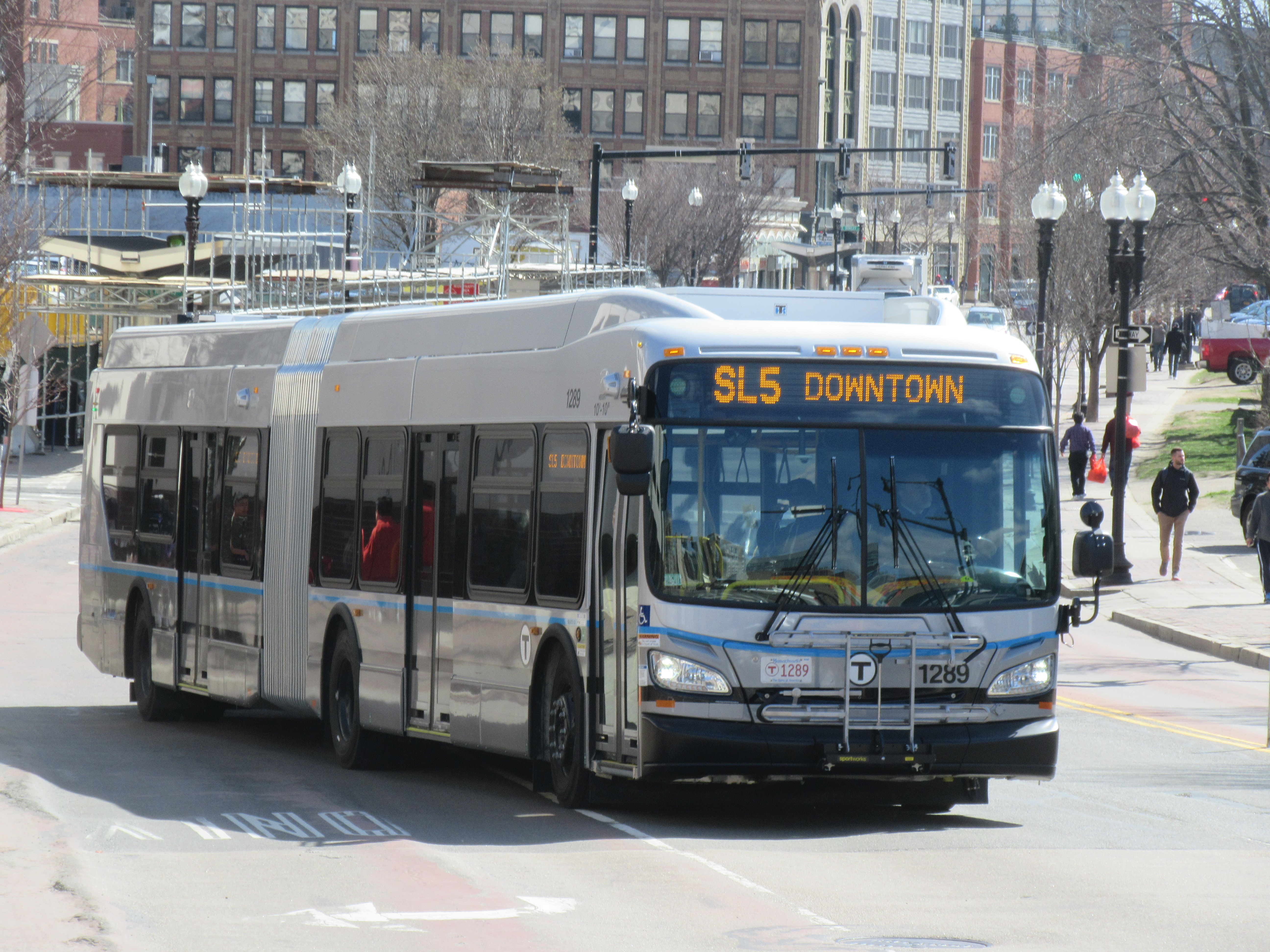 MBTA route SL5 bus on Washington Street in 2017